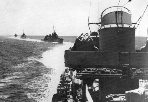 Ships of the U.S. Navy Task Force 67 (TF 67) underway off Guadalcanal just before the Battle of Tassafaronga on 30 November 1942. The destroyer USS Fletcher (DD-445) is in the foreground, followed by USS Perkins (DD-377), USS Maury (DD-401) and USS Drayton (DD-366) and, in the distance, cruisers.